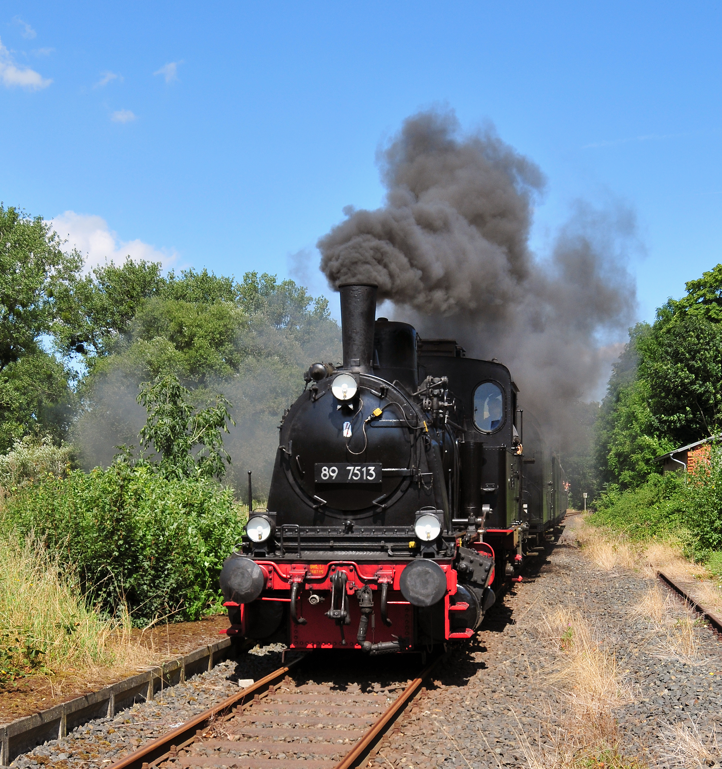 The Arnold Jung Lokomotivfabrik built 1912 in Kirchen, Rheinland-Pfalz, Germany this Tank locomotive No. 897513. Today pulls the locomotive a Heritage railway in Northern Germany.